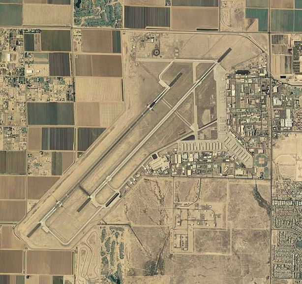 USGS digital orthophoto of Luke Air Force Base in Arizona